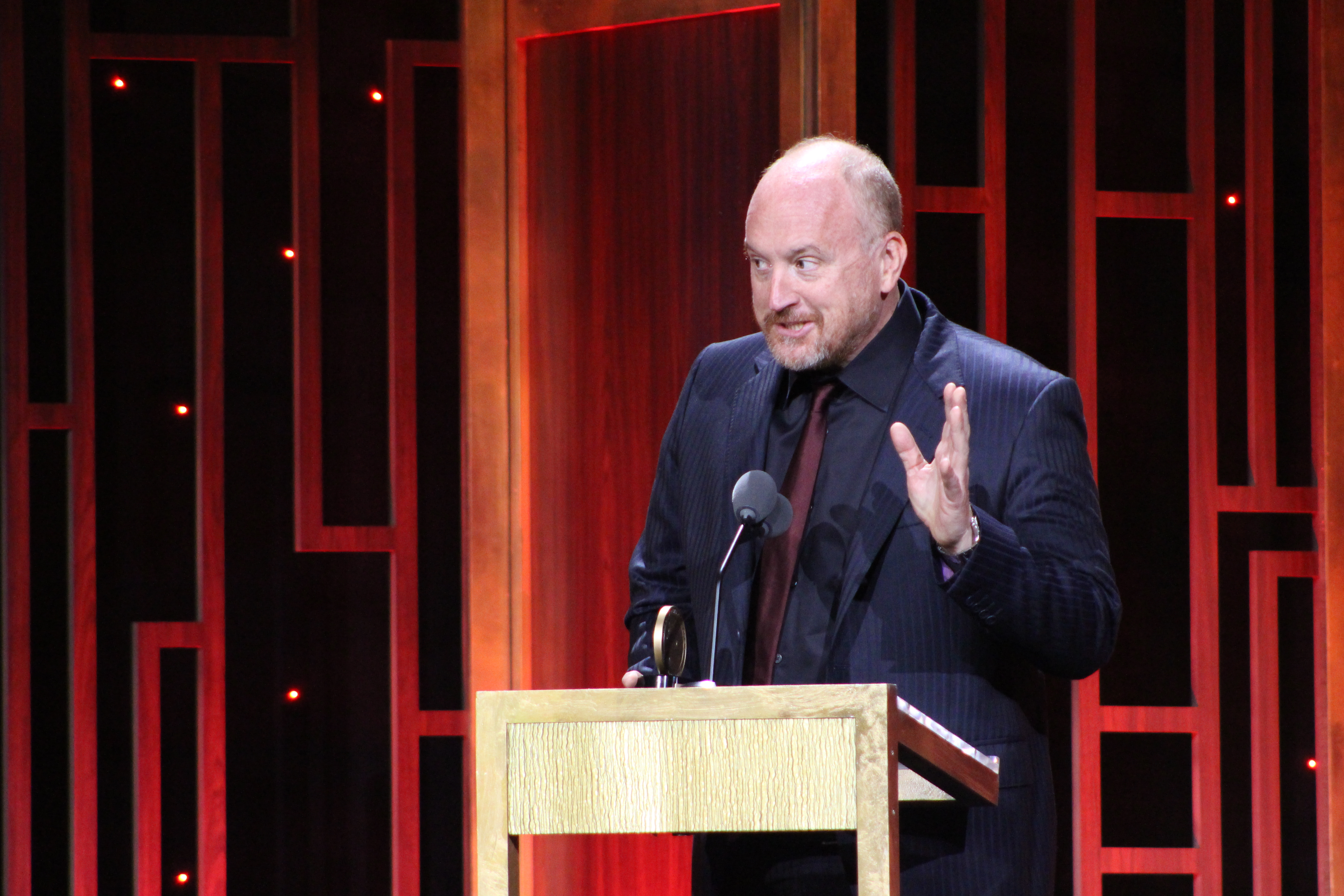 NEW YORK, NY - MAY 20: Louis CK from Horace and Pete accepts his award during The 76th Annual Peabody Awards Ceremony at Cipriani, Wall Street on May 20, 2017 in New York City.